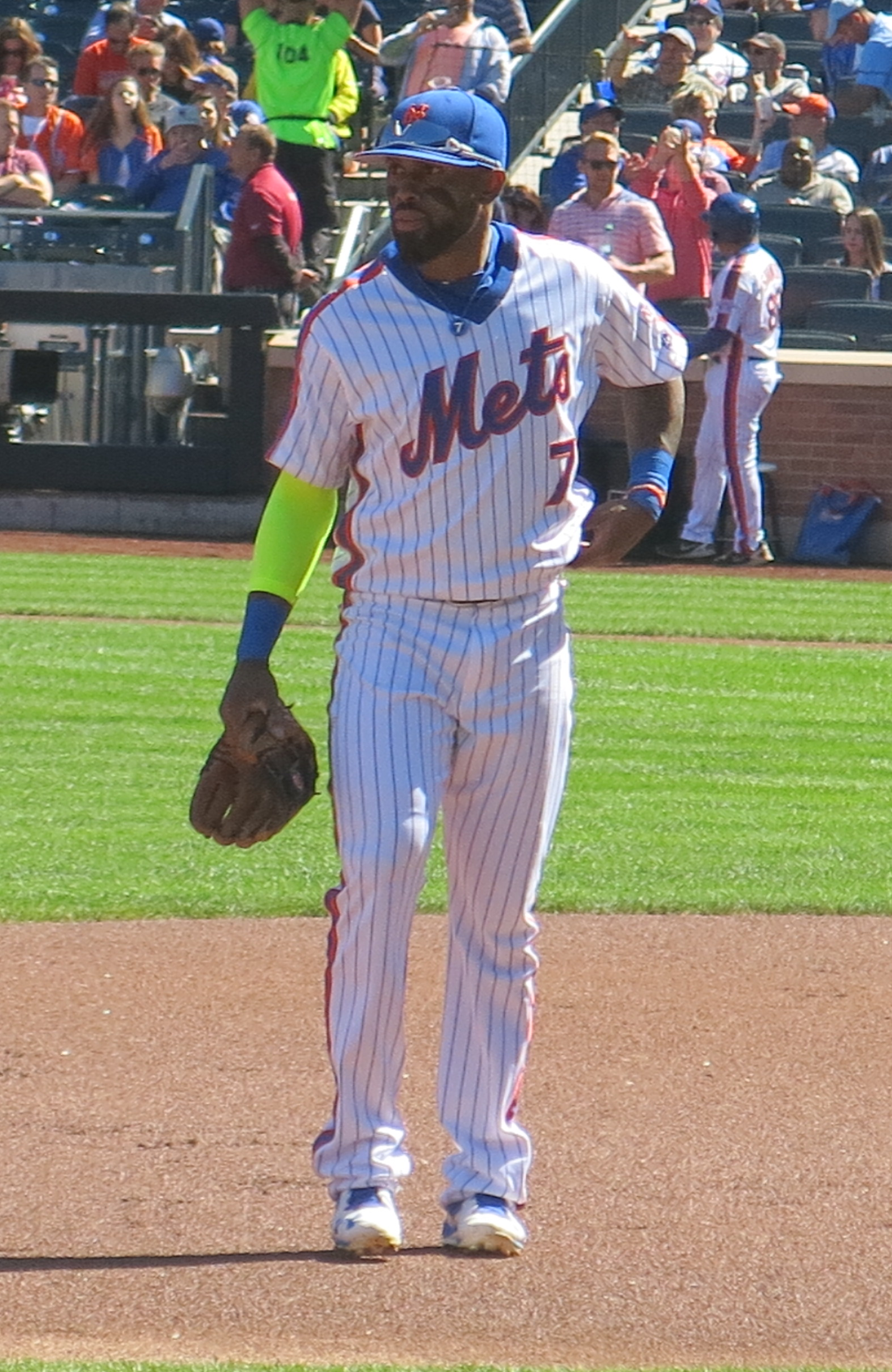 José Reyes of the New York Mets, September 25, 2016.